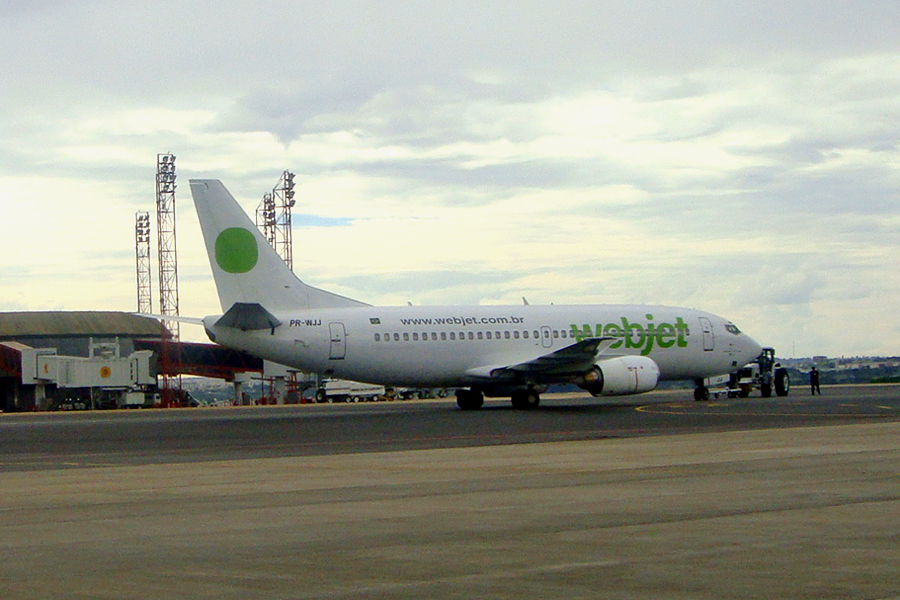 Webjet Boeing 737-300 taxing at Brasilia International Airport, Brazil